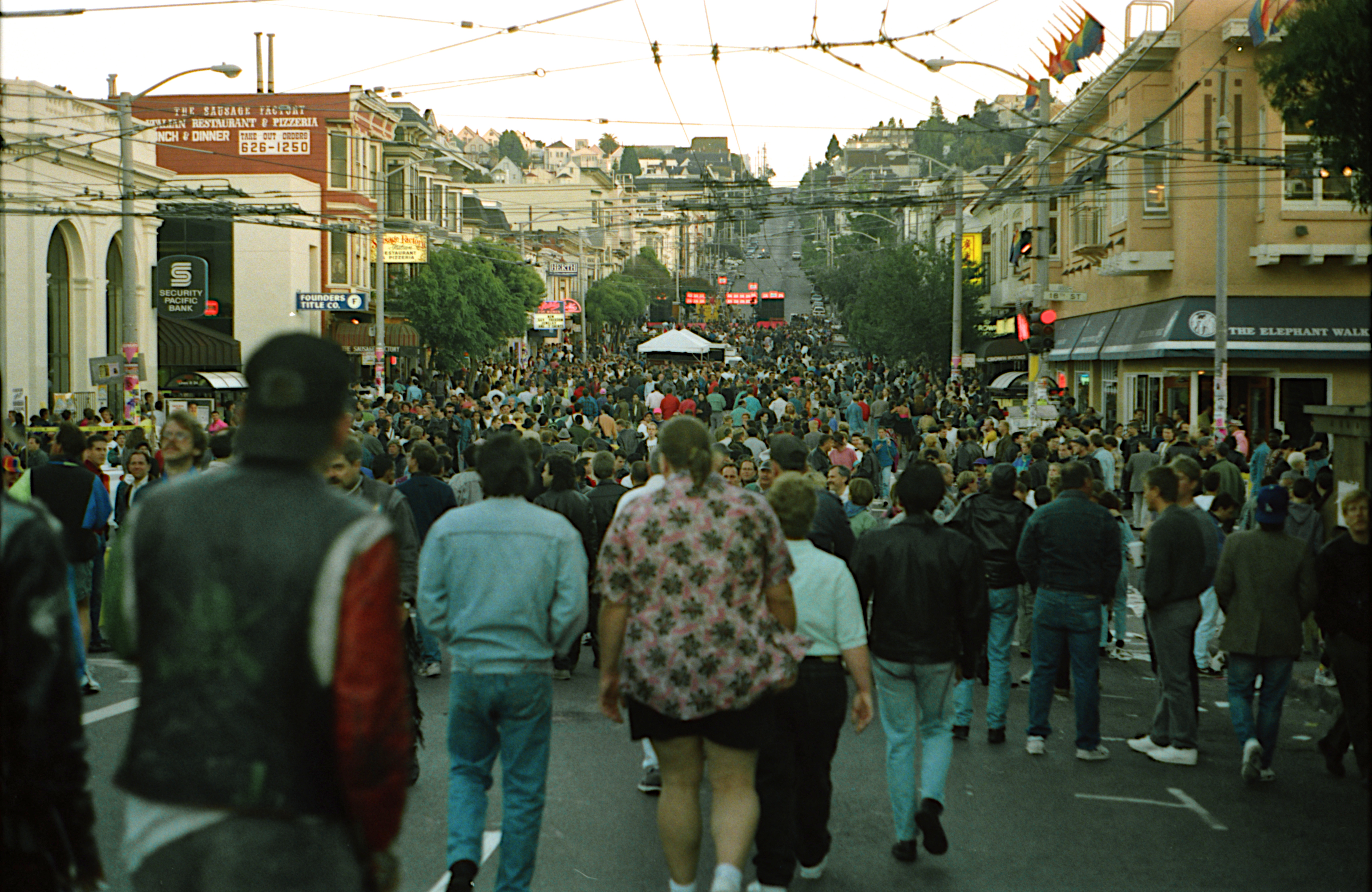 It sounds like Boomp tsst Boomp tsst Boomp tsst Boomp tsst Boomp tsst